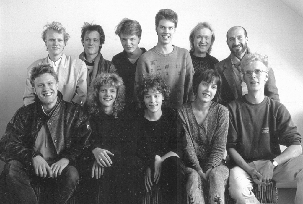 Atilla Engin's archive